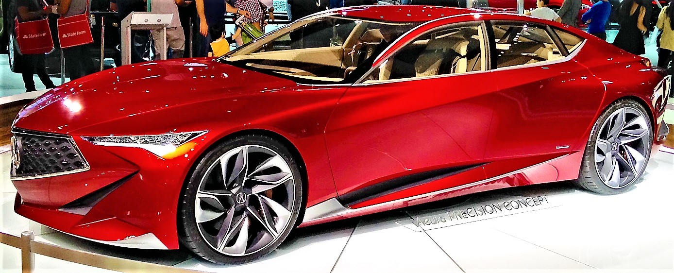 Acura Concept at the 2016 LA Auto Show